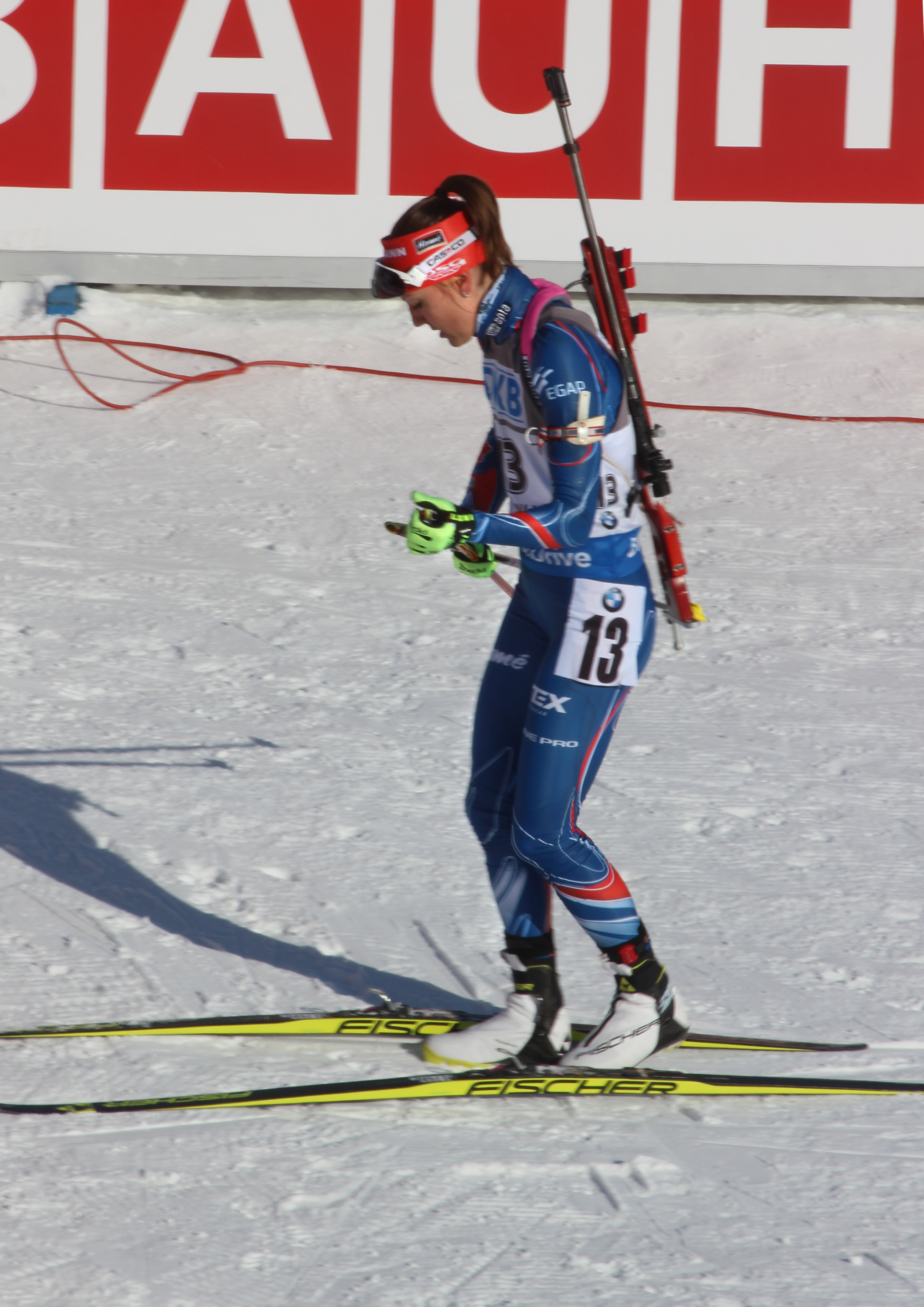 Jitka Landová at Biathlon World Cup 2015 in Nové Město, Czech Republic – sprint women